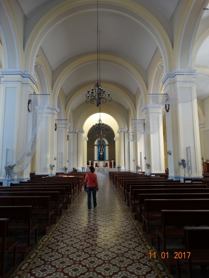 Cathedral de Nuestra Senora in Granada (Nicaragua)